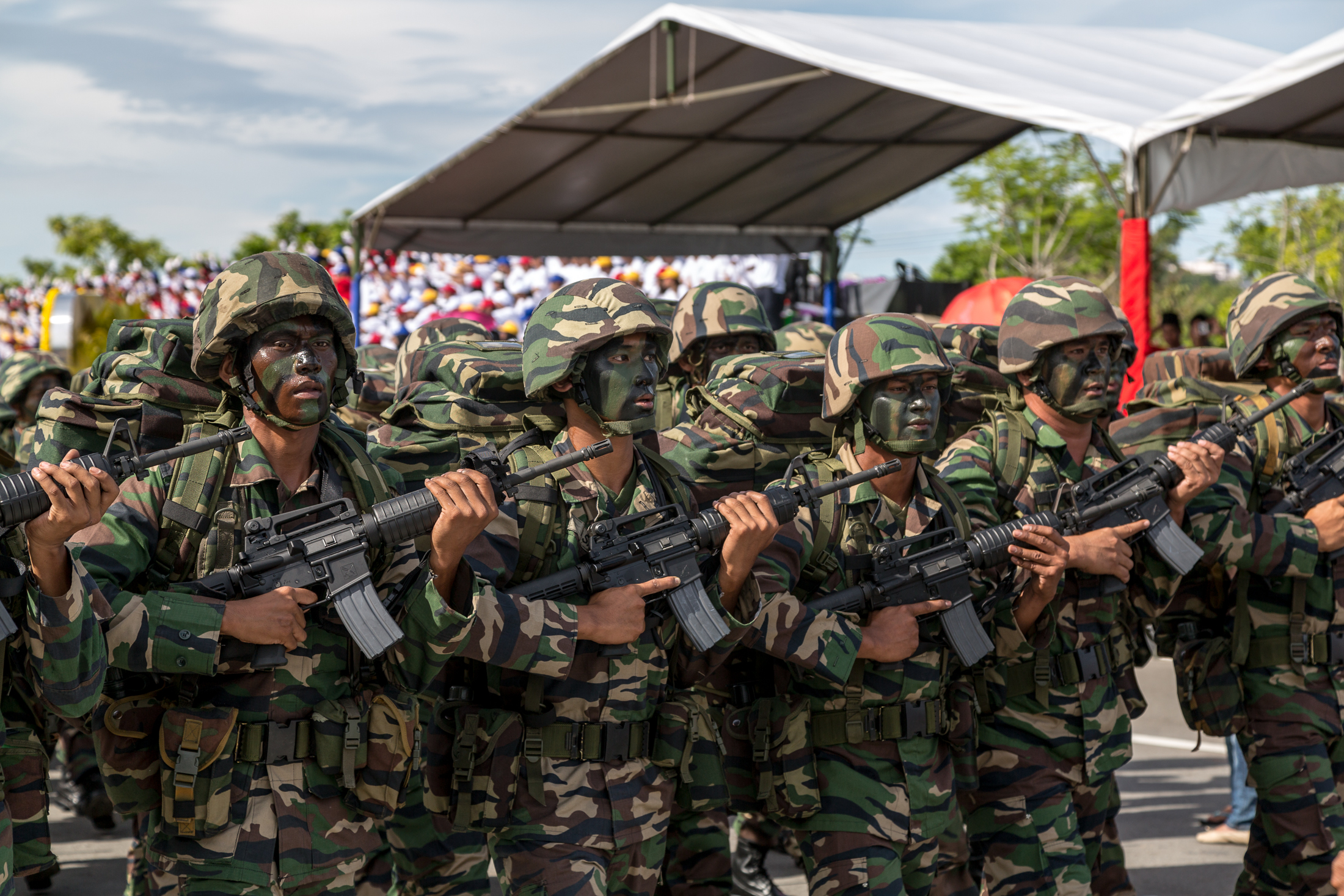 Kota Kinabalu, Sabah, Malaysia: Parade during Celebrations of Hari Merdeka 2013 in Likas on August 31, 2013